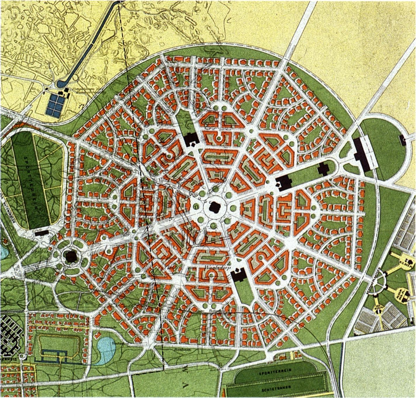 Expension plan for the Hague, detail ('World Peace Centre').